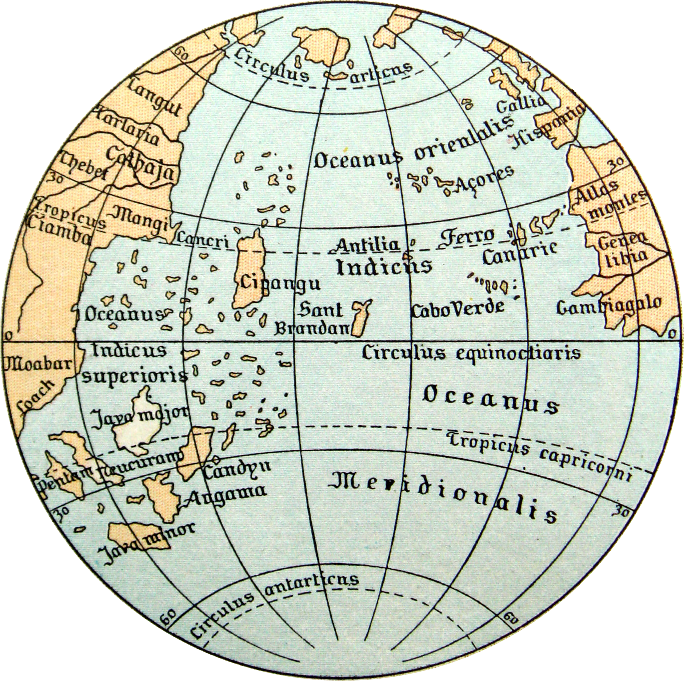 Reproduction of the globe of Martin Behaim, 1492.